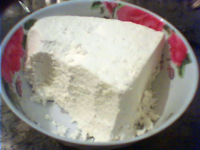 Romanian food: Urdă (Romanian pronunciation: [ˈurdə]) is a Romanian fresh white cheese made from whey of sheep, goat or cow.